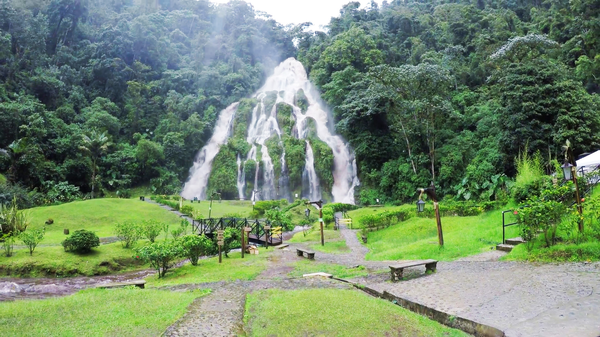 Image of the Hot Springs of Santa Rosa de Cabal